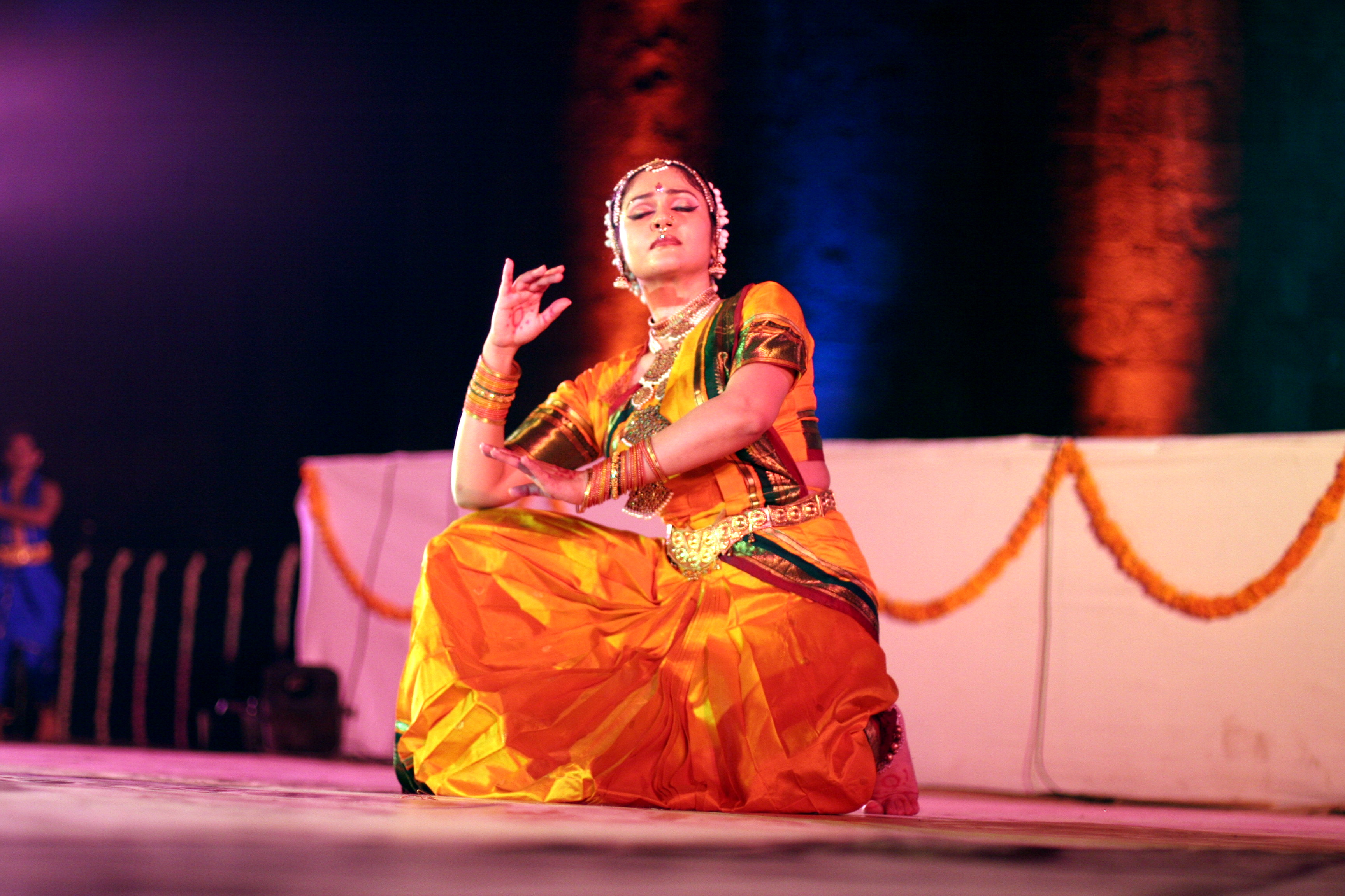 Gracy Singh Performing at the Pune Festival 2007